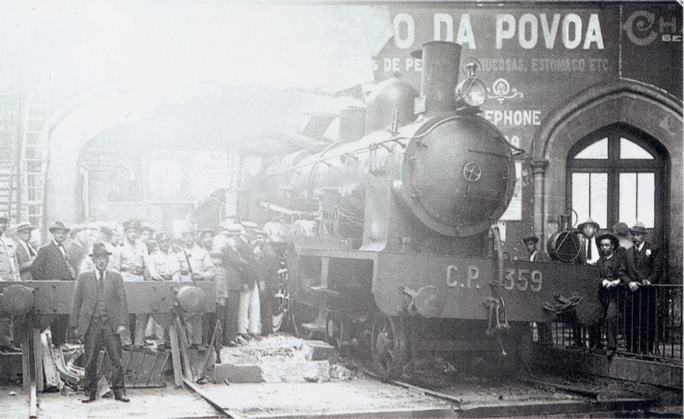 Accident at the Lisboa-Rossio Railway Station, in Portugal. This photograph was originally published by the newspaper "O Século", on the 9th September 1922.